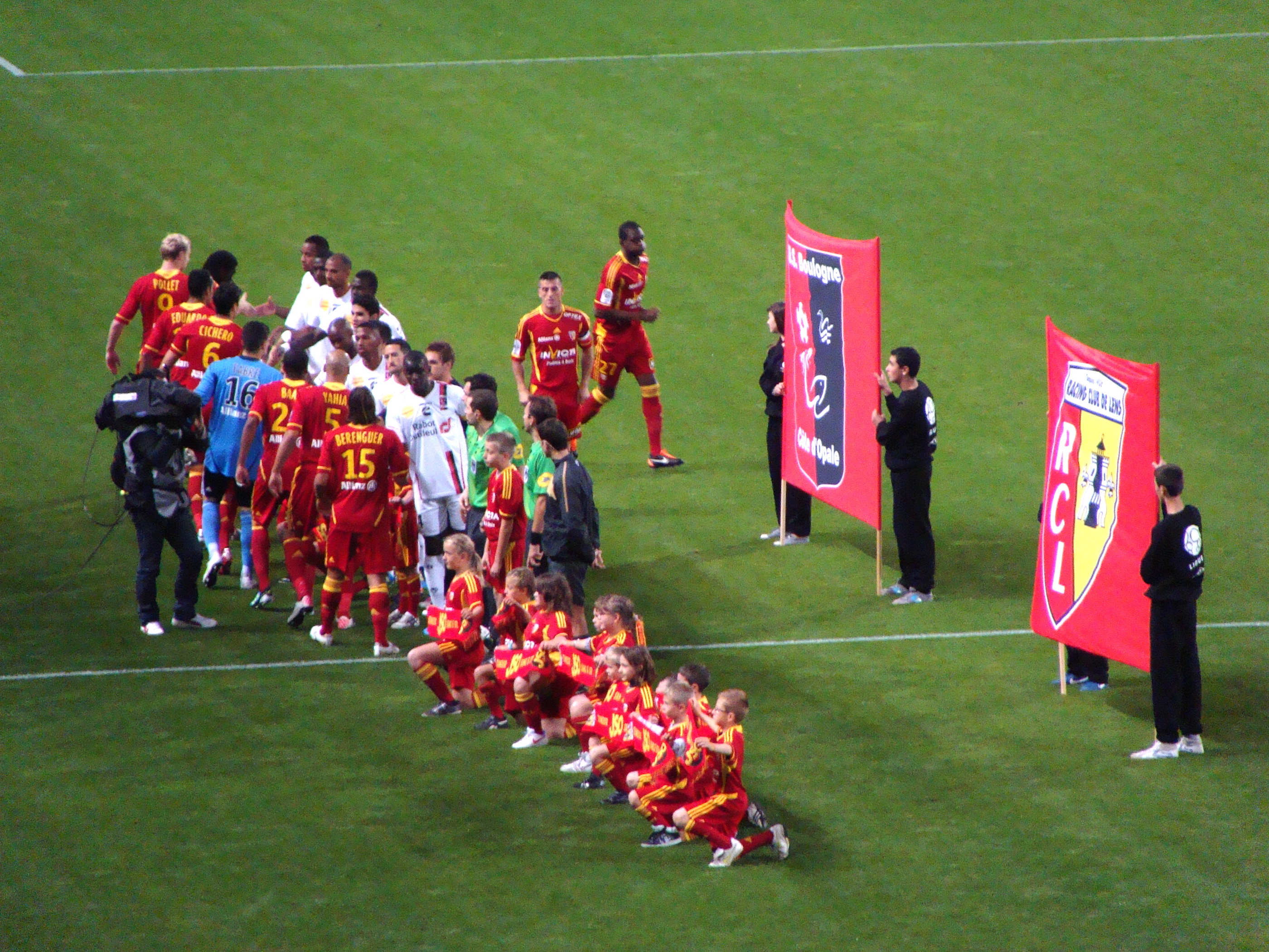 RC Lens - US Boulogne 2011